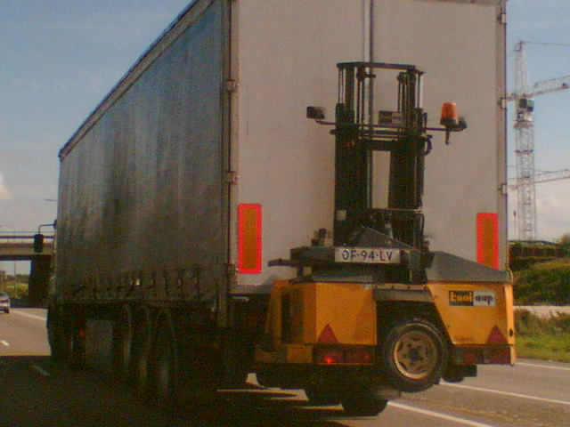 KooiAap, forklift at the back of a truck